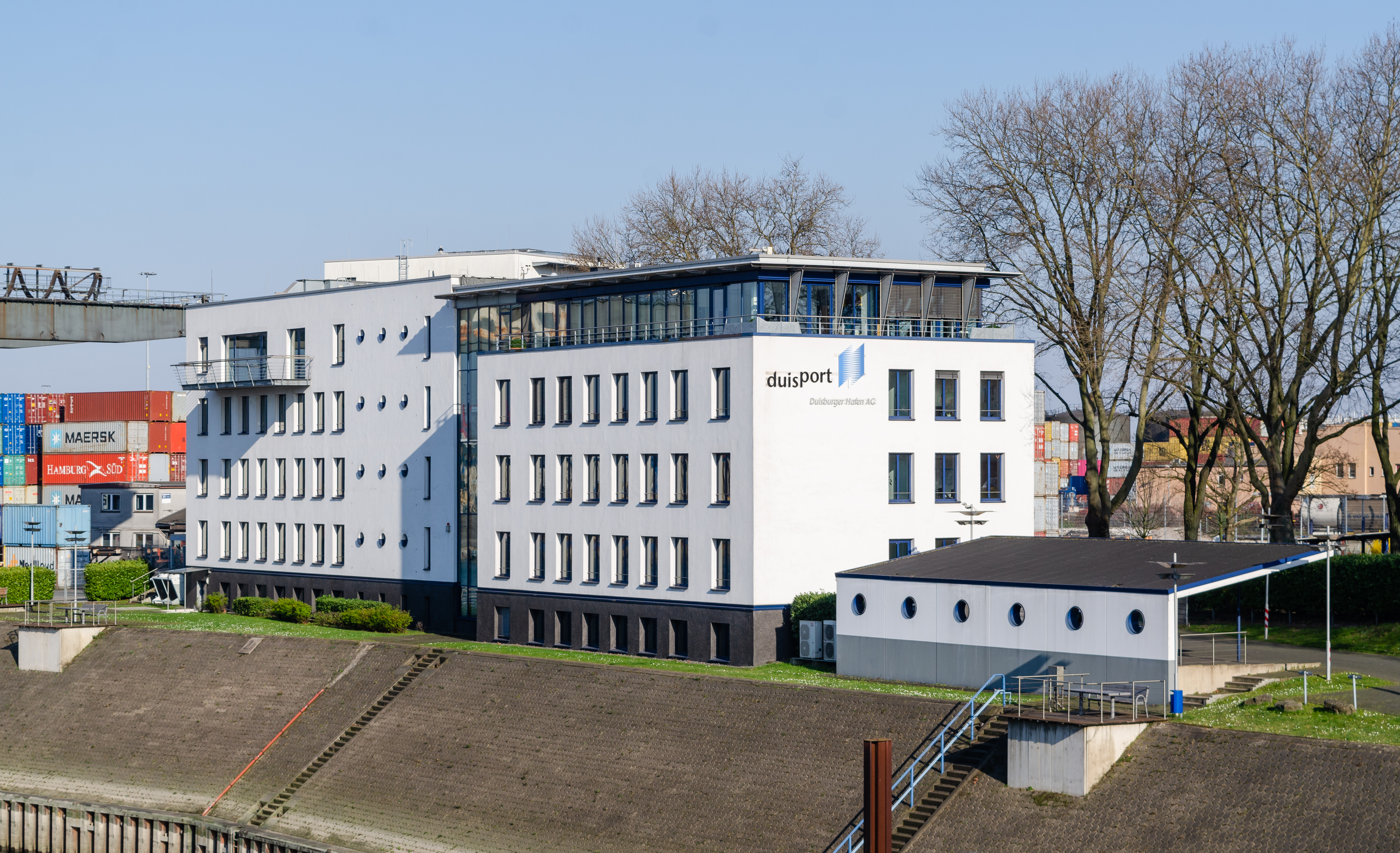 Duisburg (North Rhine-Westphalia, Germany) – borough Homberg/Ruhrort/Baerl, district Ruhrort – Vincke Canal – corporate headquarters of “Duisburger Hafen AG” (duisport; operator of the port of Duisburg)